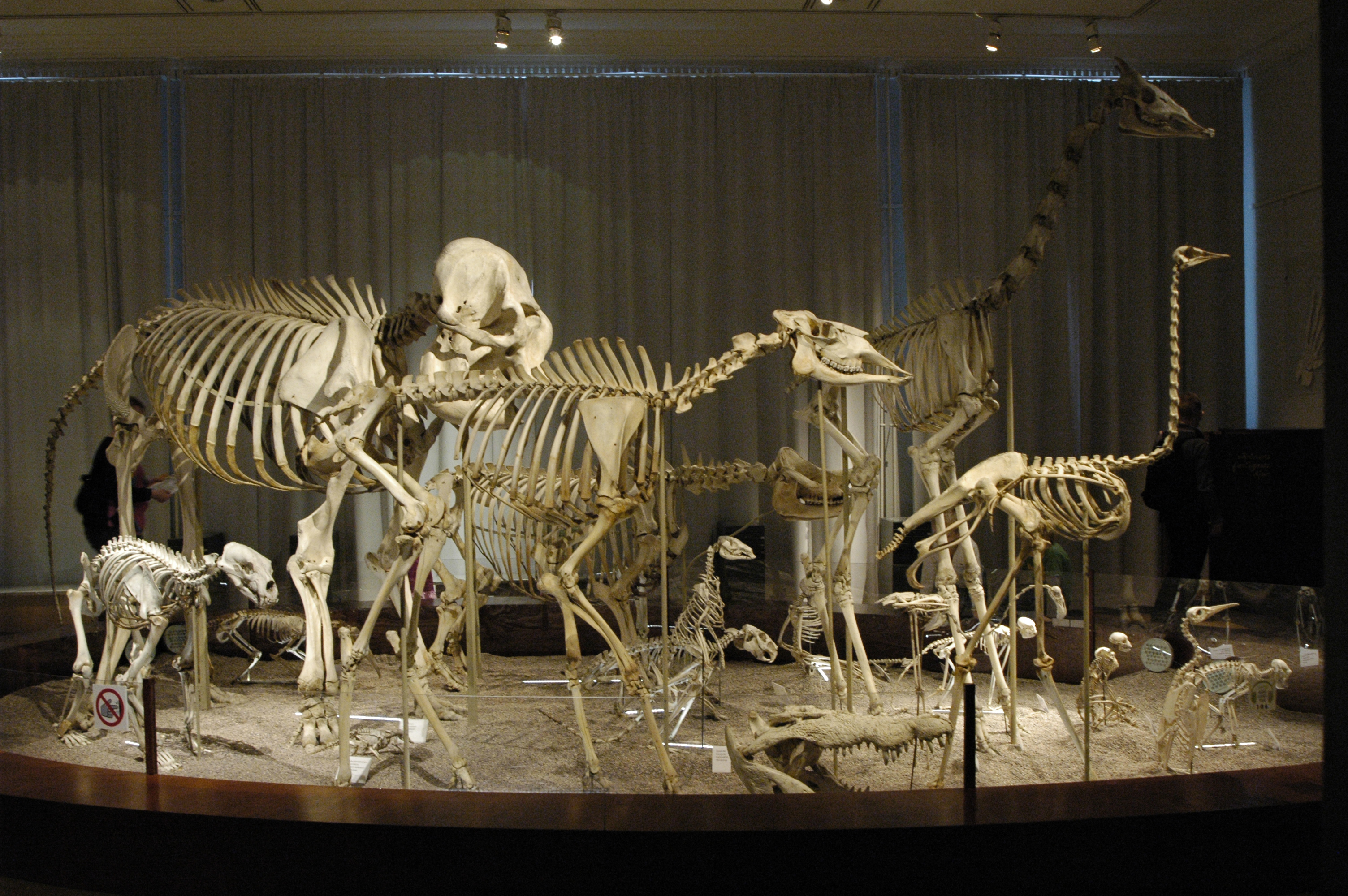 Animal skeletons at Finnish Natural History Museum, Helsinki. Elephant, giraffe etc.